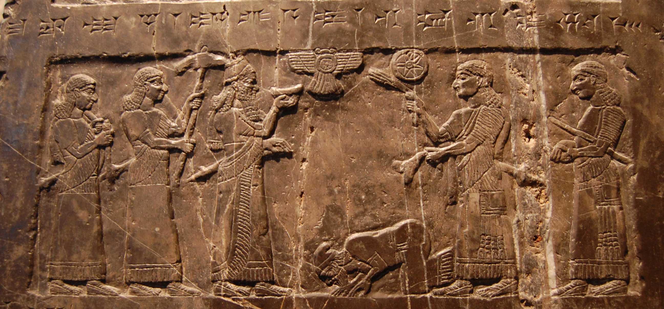 Black Obelisk Yehu in front of Shalmaneser III